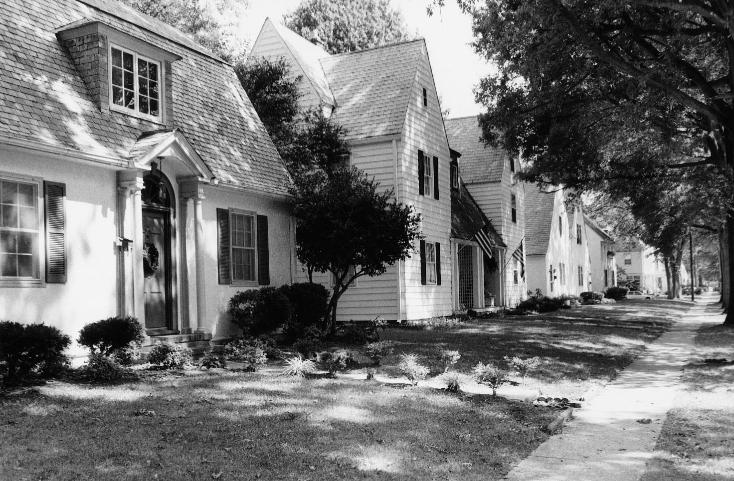 Picture at corner of Post and Palen and looking towards Warwick Blvd.